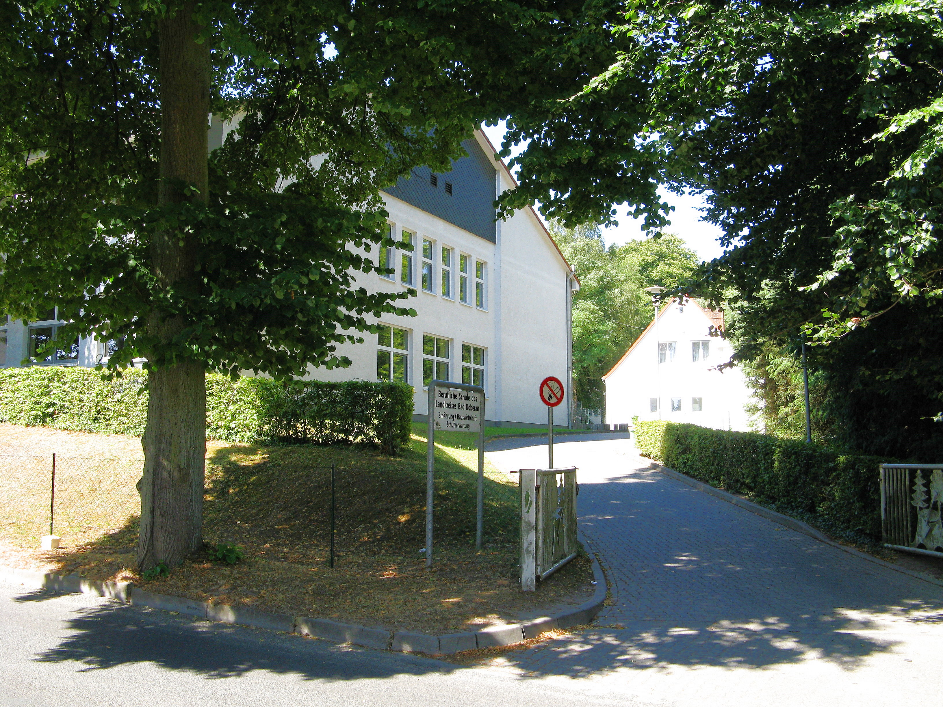 Vocational Training in the GDR - In this place was the Vocational School Forestry Bad Doberan. The „BBS Forst“ in Bad Doberan was the only forestry school in the GDR in which the vocational training could be made and at the same time the university entrance qualification could be acquired.